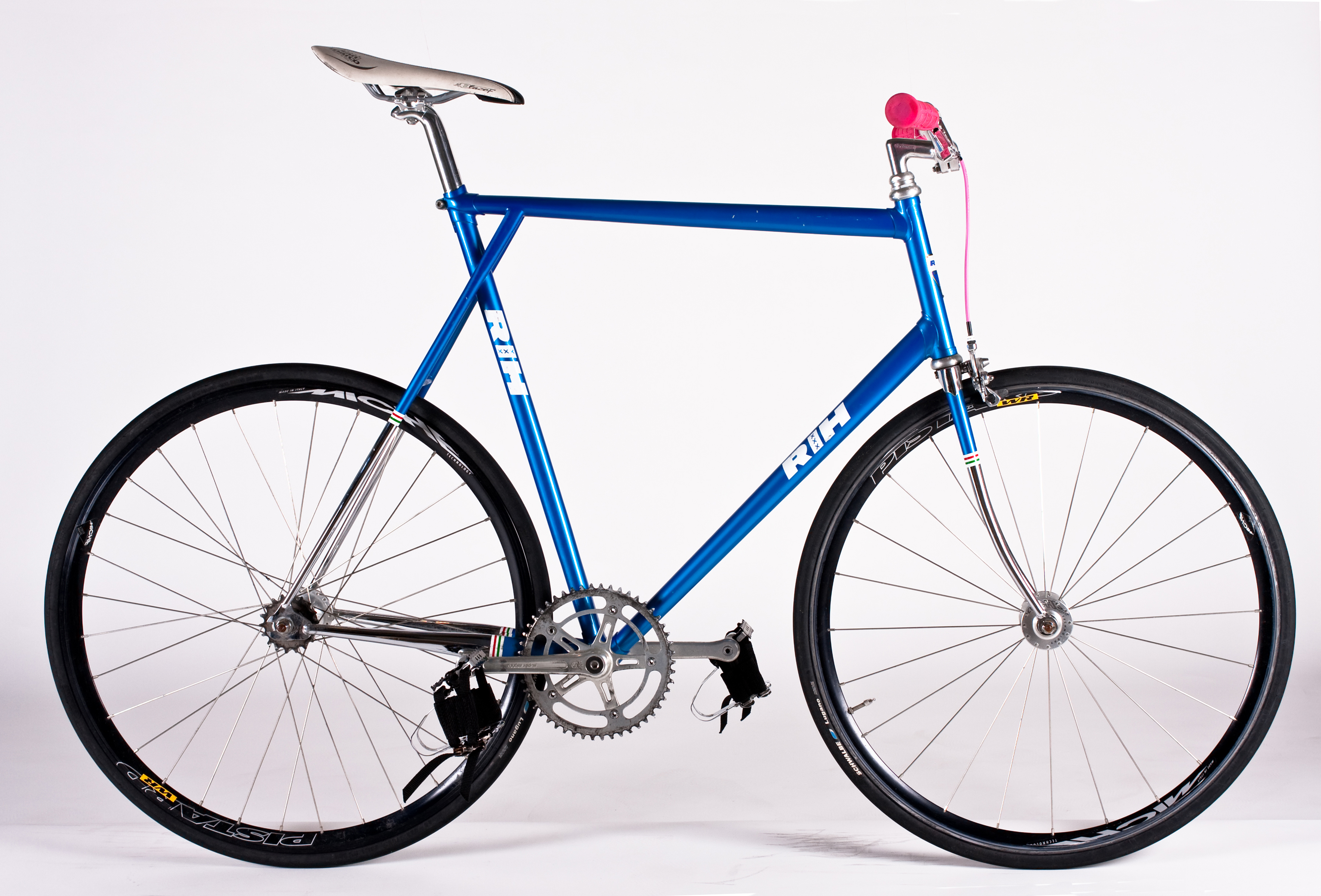 This is a very a-typical RIH Sport bike built in 2001 in Amsterdam by Wim van der Kaaij. It is not built out of the usual Reynolds tubing but out of the Italian Columbus (Max) tubing.